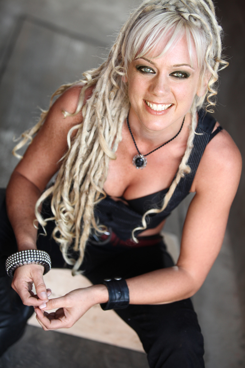 photo of Tonya Kay